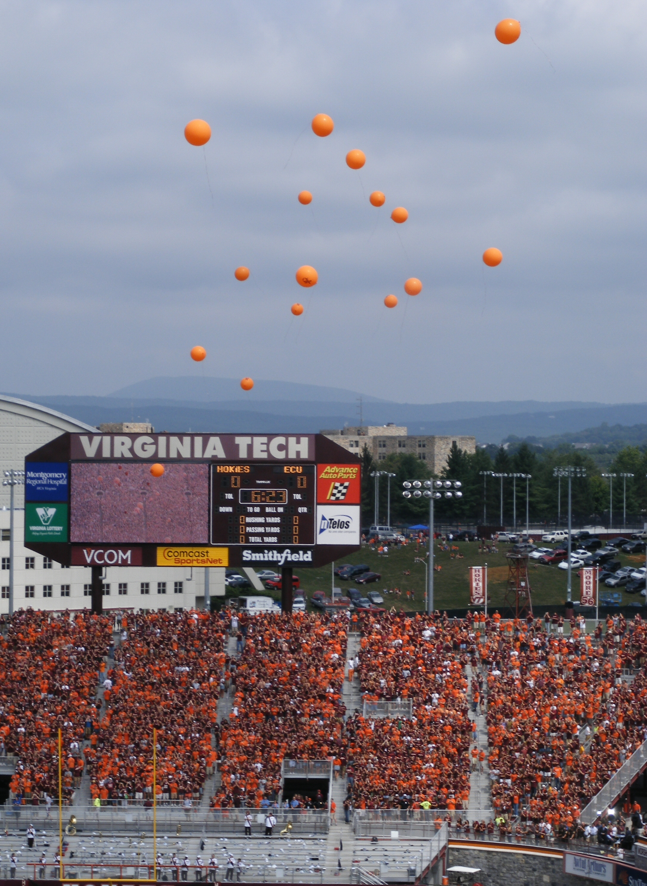 Virginia Tech releases 32 balloons prior to the Hokies' 2007 opener against East Carolina to commemorate those who died during in the Virginia Tech massacre.